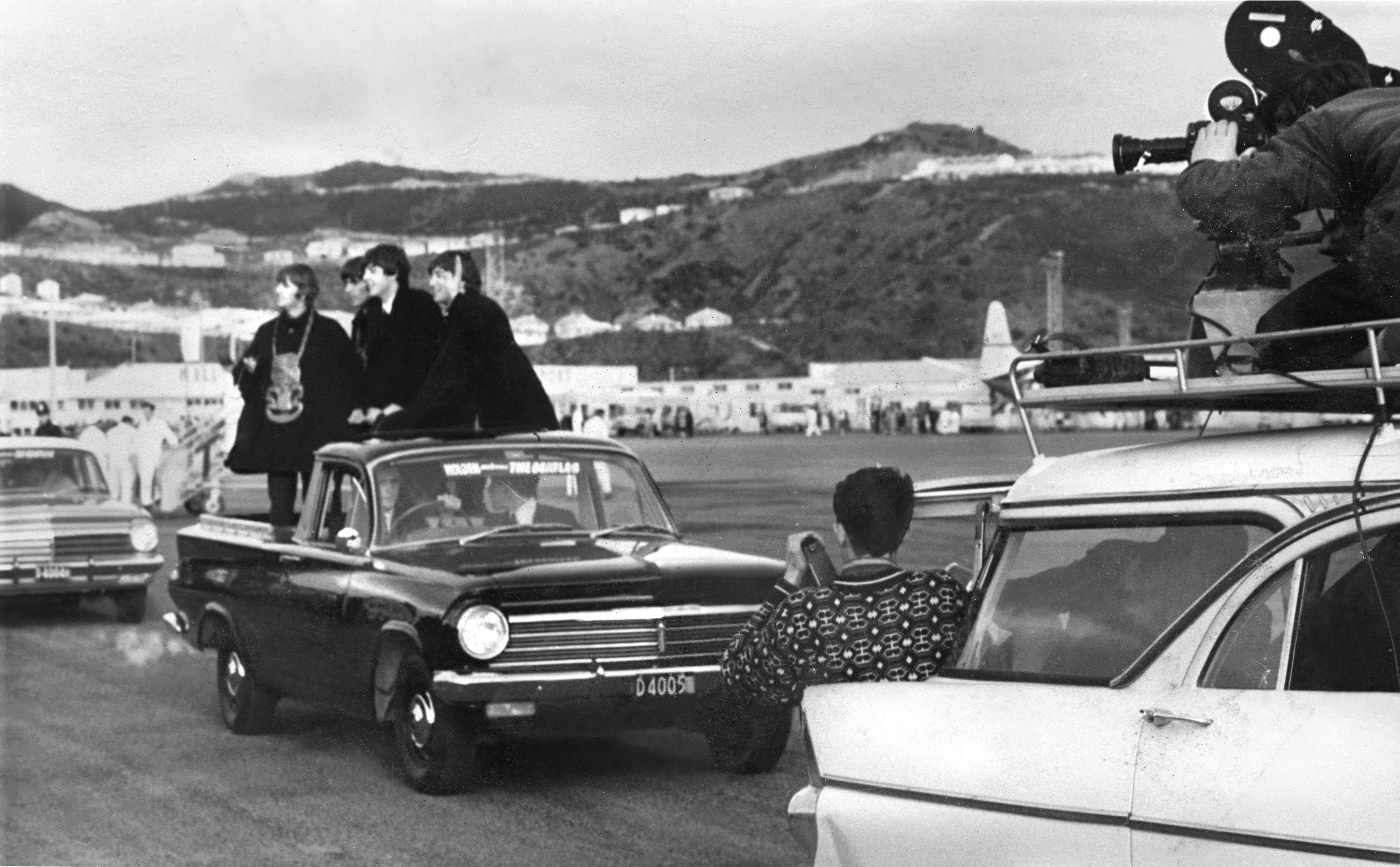 On 21 June 1964 the Beatles touched down at Wellington airport for the start of the New Zealand leg of their ‘Far East’ tour. Awaiting them were seven thousand avid Beatles fans, barely contained behind wire fences, whose screams drowned out the noise of the jet engines. The band’s arrival heralded the start of a week of unprecedented fan frenzy that gripped the country. After landing, the Beatles were greeted by the Te Pataka concert party with a haka, hongi, and presentation of tiki. Film footage of the event taken by the NZBC shows the bemused reactions of the Beatles to this display of Maori culture. They were then driven in the back of a station wagon from the airport through Wellington to the St George Hotel, waving to fans who lined the roads. This photo from the National Film Unit collection shows NZBC cameramen filming the Beatles as they were driven across the tarmac after their arrival. The cameramen are unidentified, but the camera on the forward car has been noted as a 16mm Arriflex ST. It was the only time the Beatles ever visited New Zealand as a group. During their short tour they visited all four main centres and played six concerts to several thousand fans. Throughout the country the reaction of fans to the band’s presence was hysterical, raising concerns to older generations at the level of pandemonium created by this brush with Beatlemania. Archives reference: AAPG W3939 Box 24